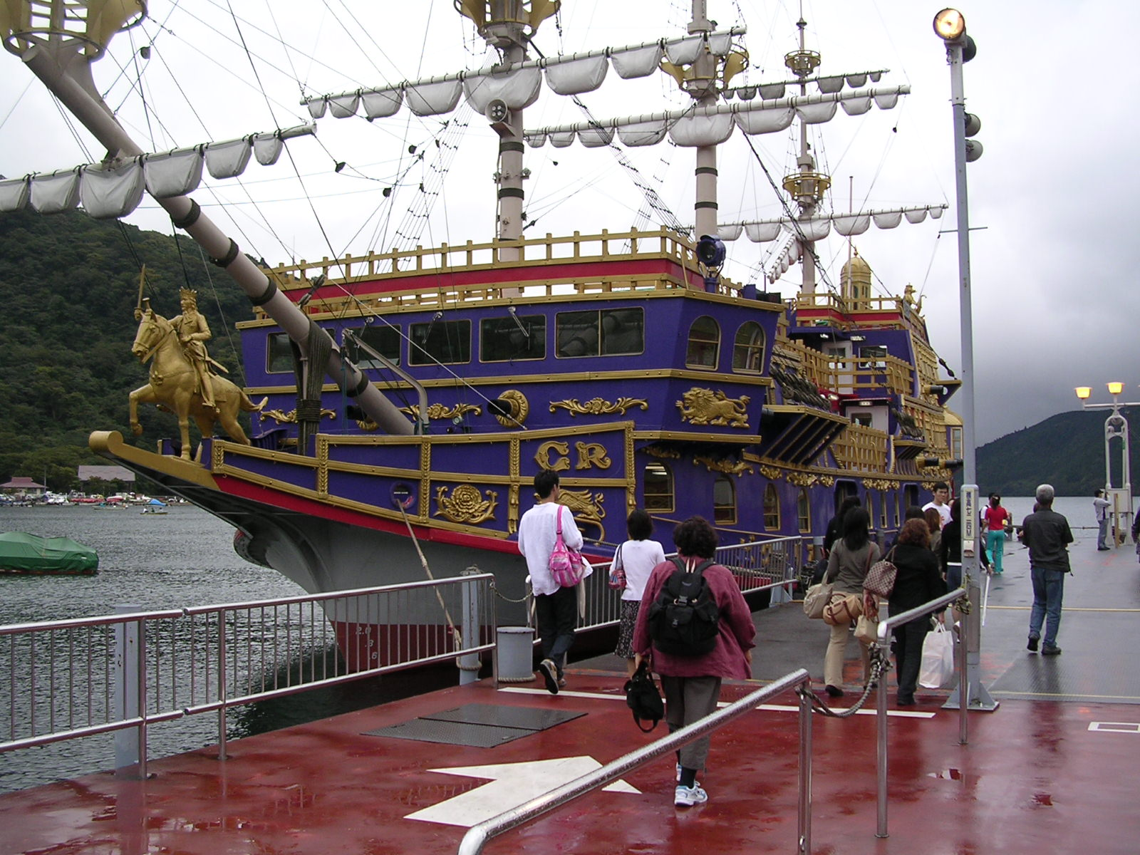 "Pirate Ship", tourist ferry on Lake Ashi in Hakone, Japan